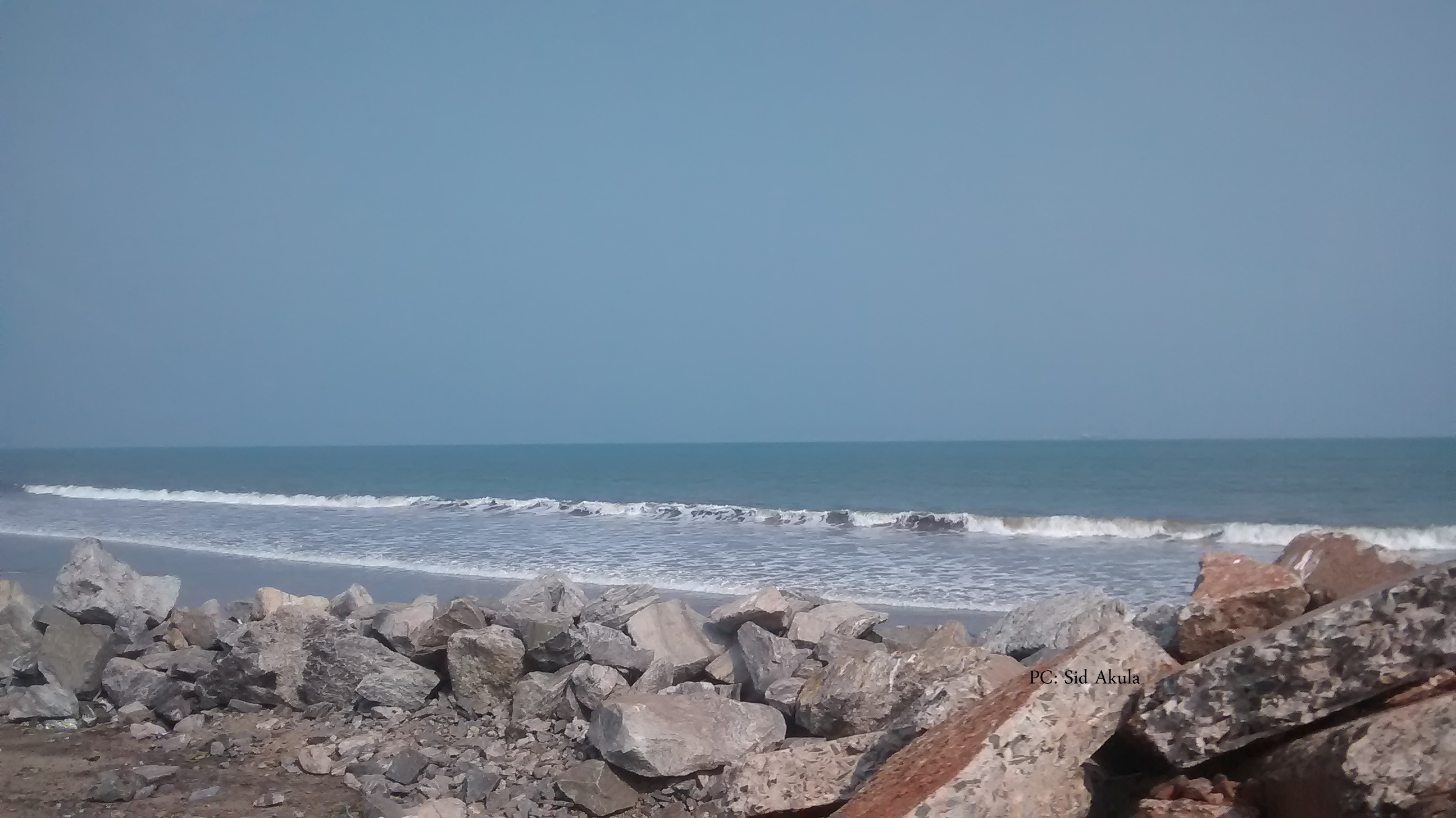 Scenic view of Kakinada beach during